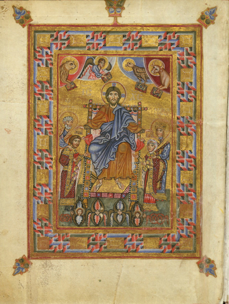 Christ crowning grandprincess Gertrud's son prince Yaropolk of Kiew and Kunigunde of Saxony. 11th-century miniature from the Trier Psalter. Image from Egbert Psalter (Gertrude Psalter, Trier Psalter). Now in the Museo archeologico nazionale of Cividale, Italy.